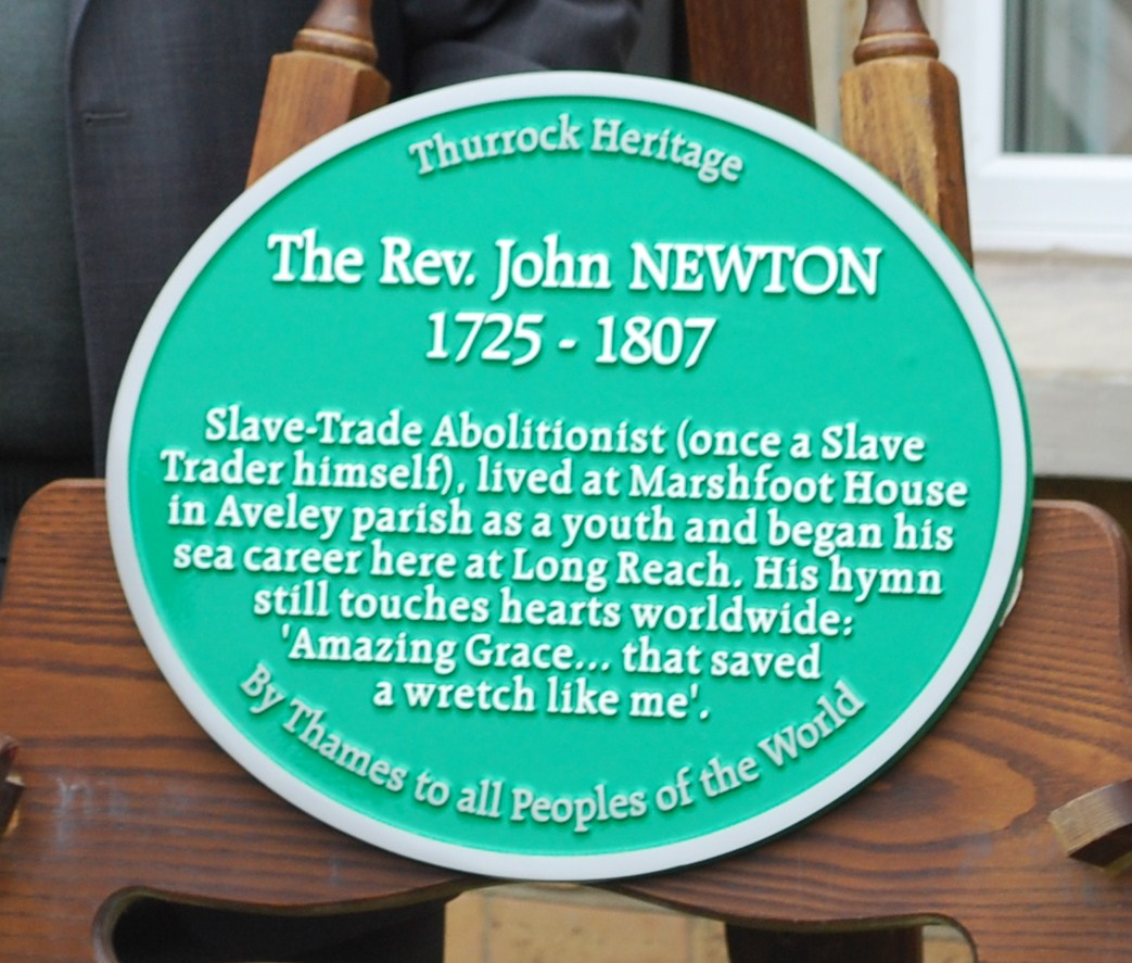 commemorative plaque to Rev John Newton in Thurrock